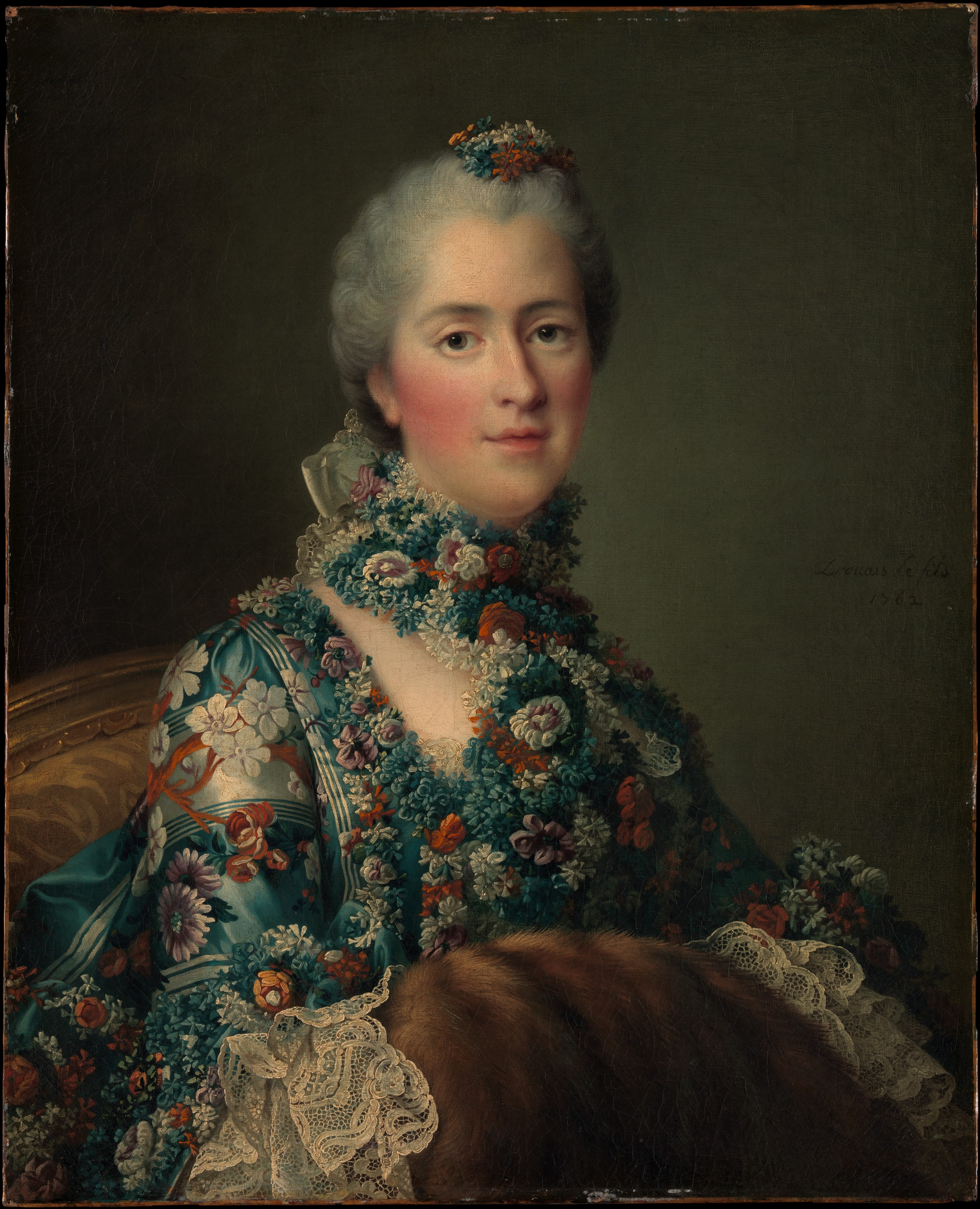 Madame Sophie de France (1734–1782), she was the sixth of eight daughters of Louis XV of France. Timid and self-effacing, she lived among members of the royal family at the châteaux of Bellevue and Versailles until her early death at forty-seven. She wears a magnificent dress of striped and flowered damask with a hair ornament of flowers and straps of the same material.